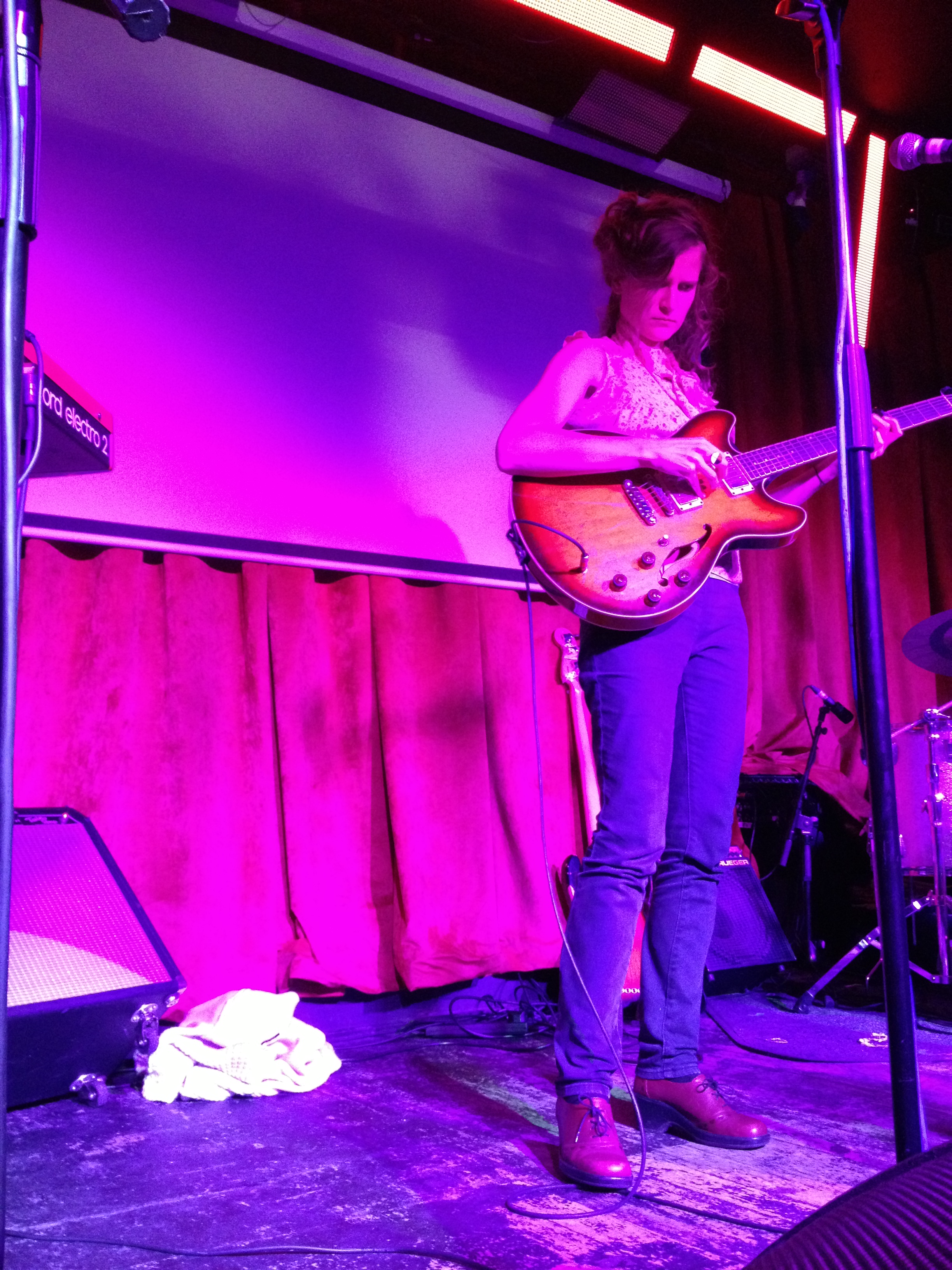 This is Devon Sproule soundchecking at the Hoxton Square Bar & Grill in London on October 20, 2013.